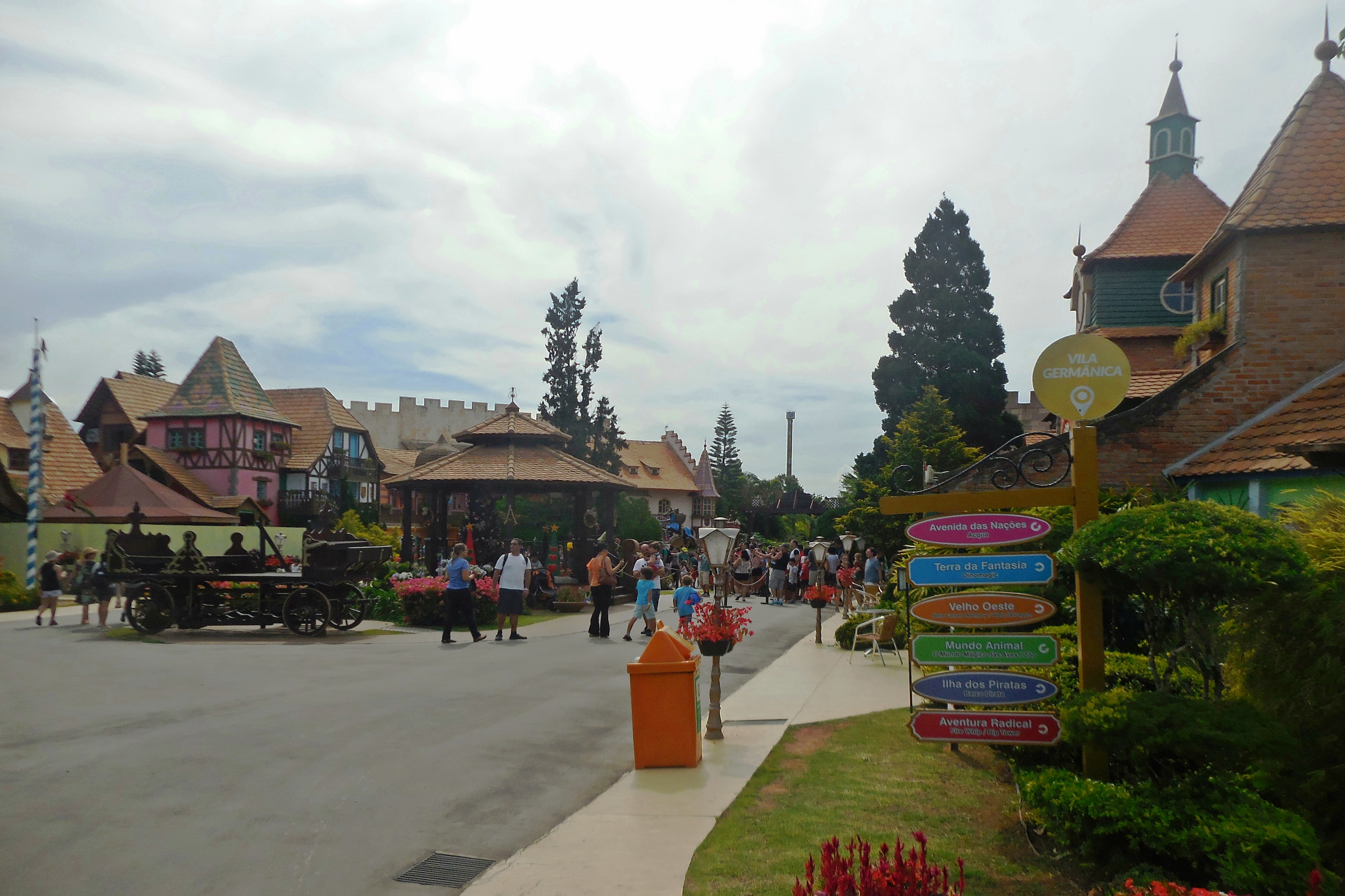 The Vila Germânica (German village) in the Beto Carrero World, in Penha, Santa Catarina, Brazil.